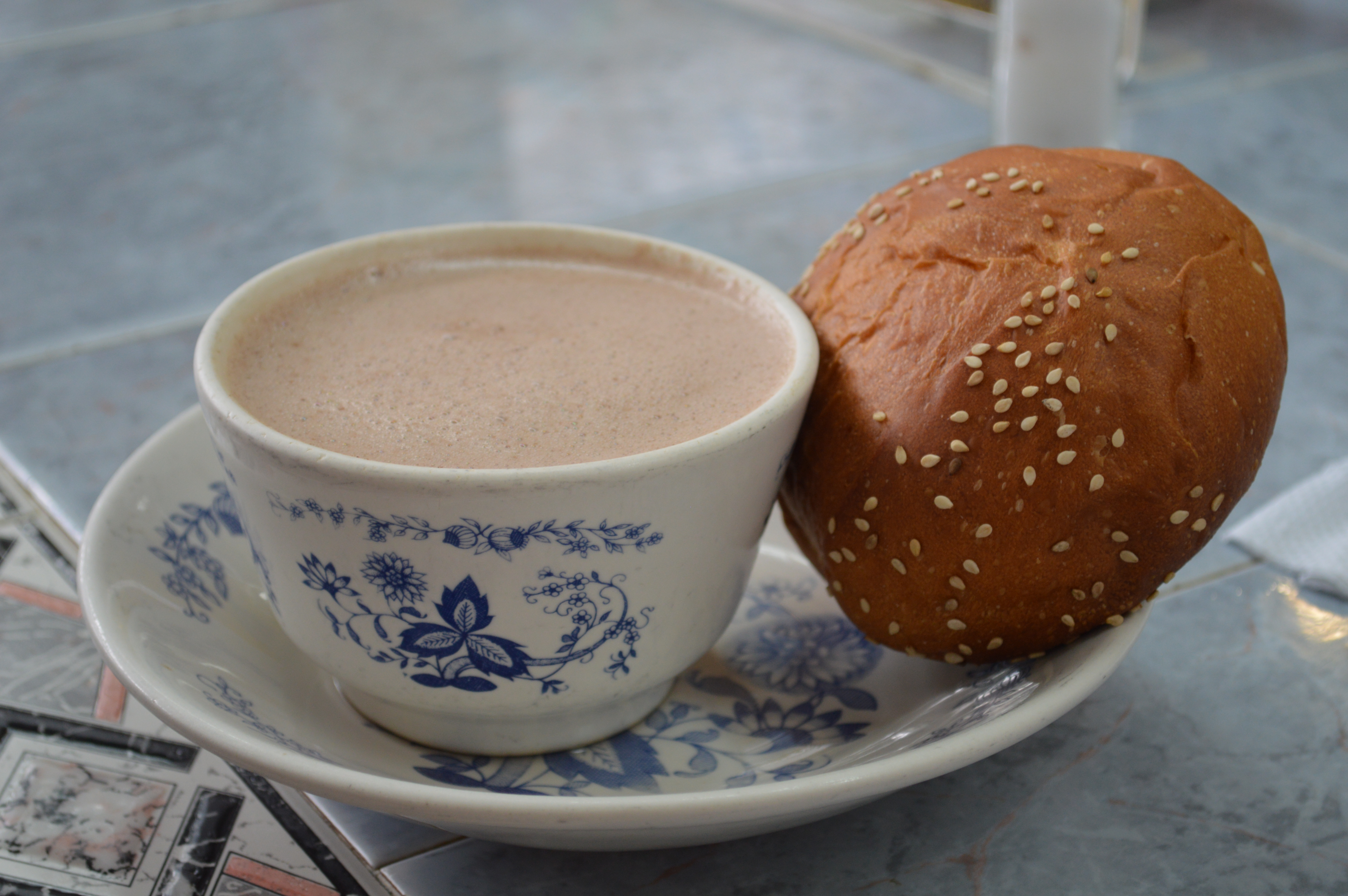 bowl of Oaxacan hot chocolate served at the 20 de Noviembre market in the city of Oaxaca